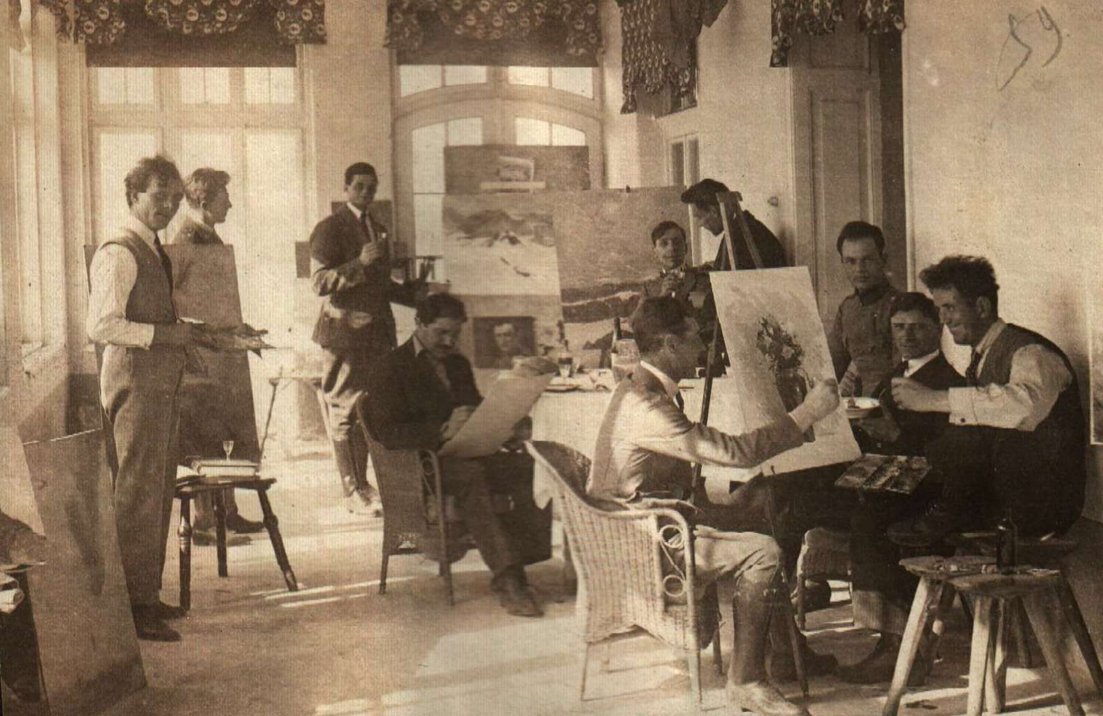 Rayko Aleksiev